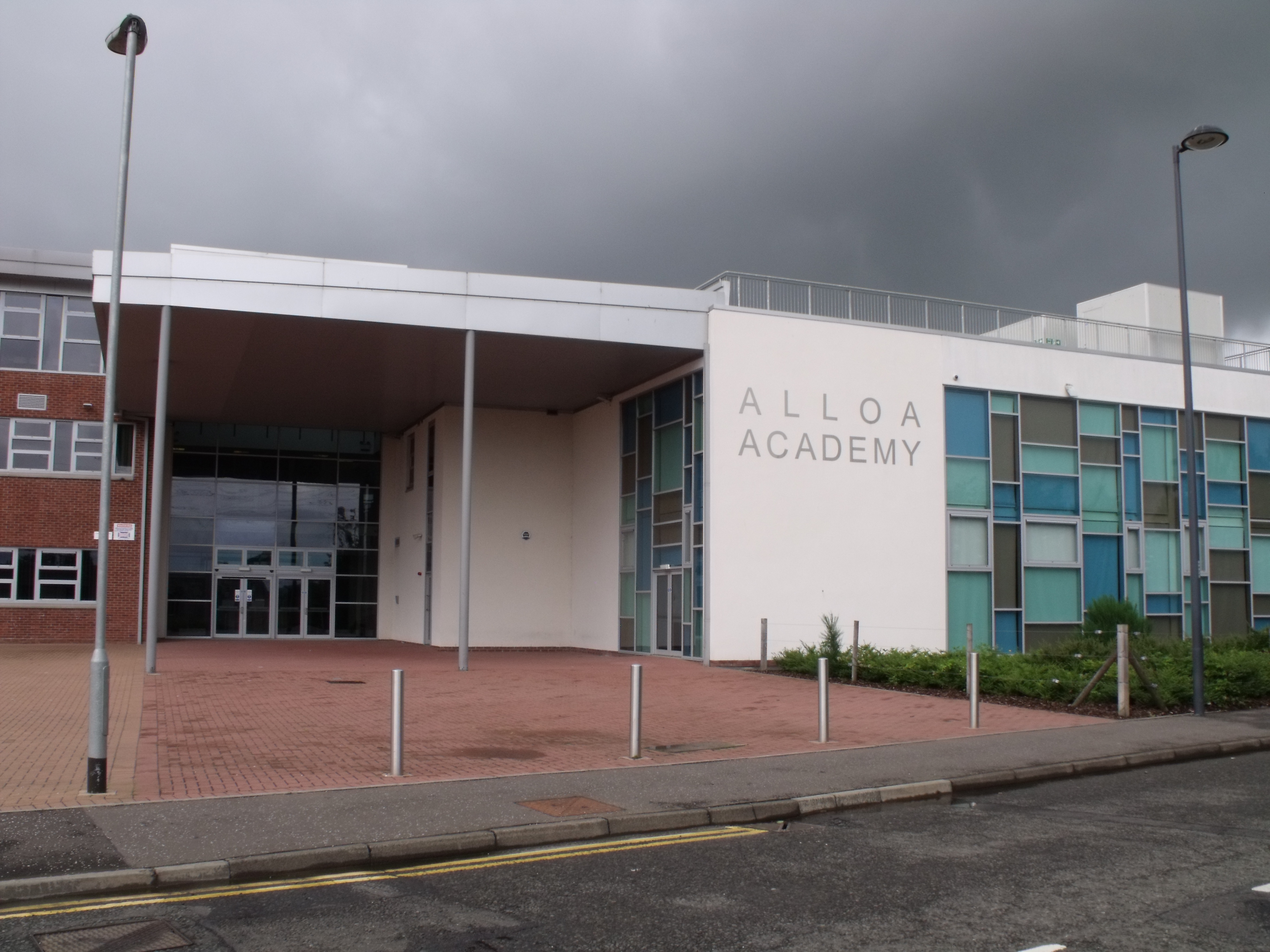 This is the "new" Alloa Academy site down near the River Forth's waterfront.